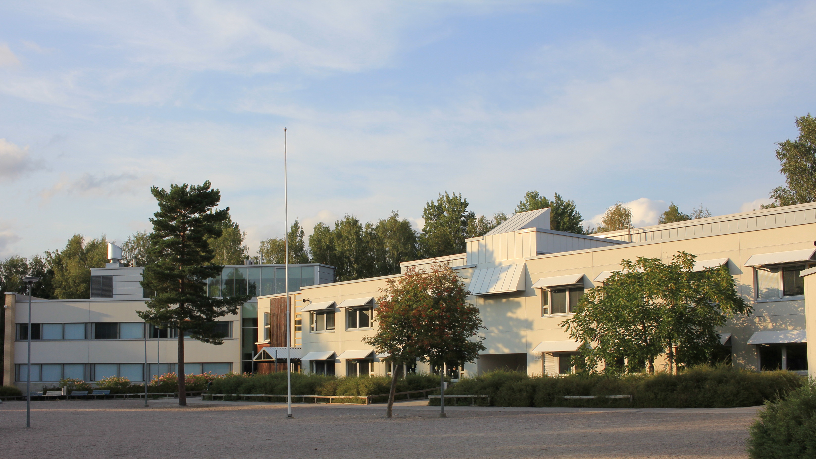 Iivisniemi primary school, Espoo, Finland. - School seen from school yard.